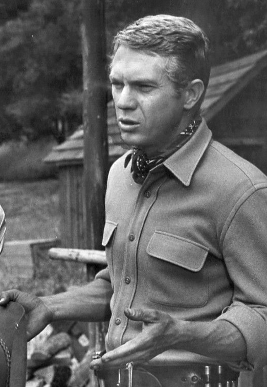 Photo of Steve McQueen as Josh Randall from an episode of the television program Wanted: Dead or Alive dated 21 August 1959.